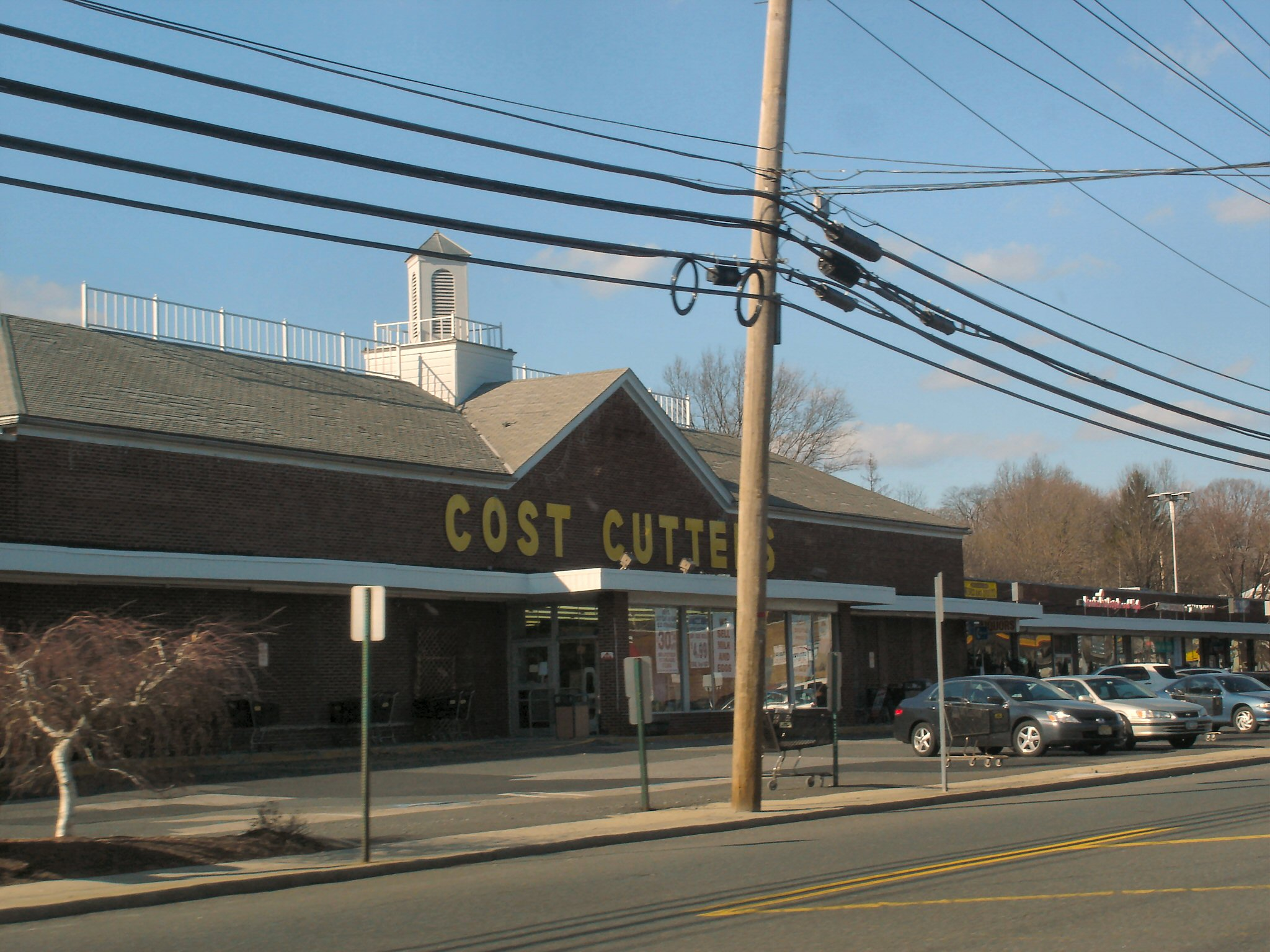 Cost Cutters is the largest convenient store in Norwood, New Jersey. It is located on Livingston Avenue, near the Northvale border.